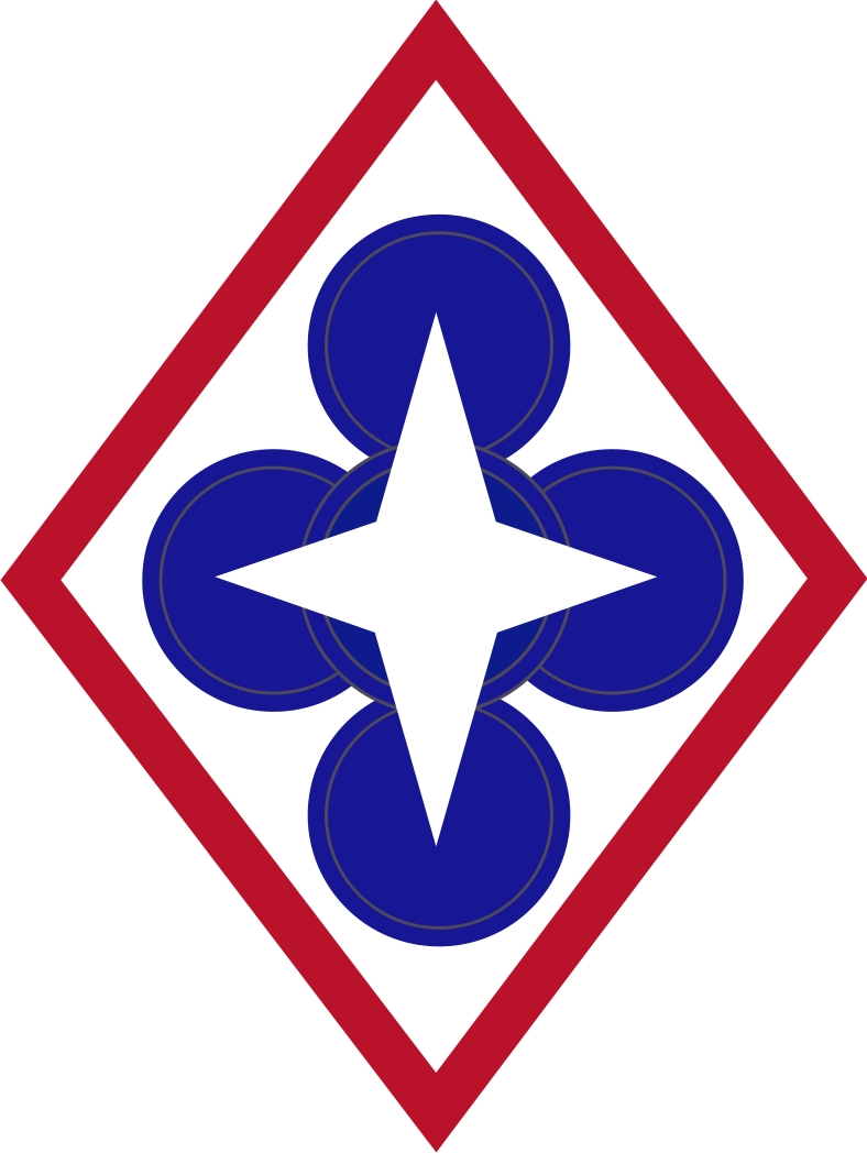 Combined Arms Support Command and Fort Lee Shoulder Sleeve Insignia